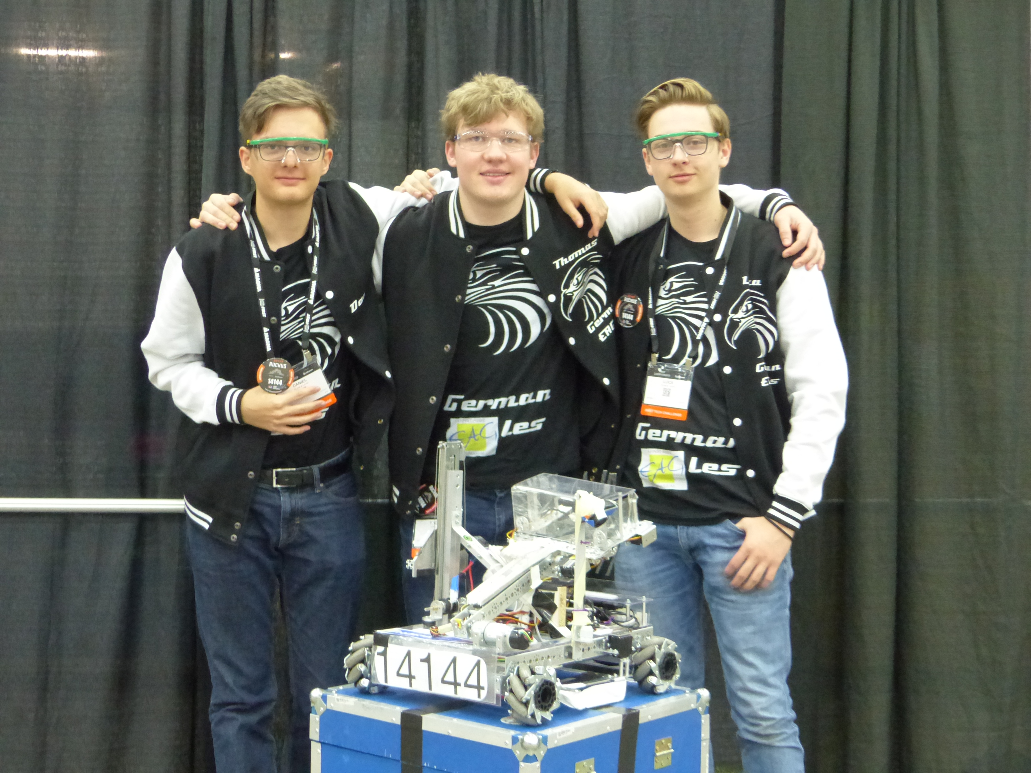 The only German FTC-team that participated in the 2018/2019 FIRST Championship Detroit.